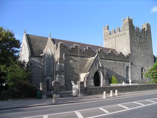 Trinitarian monastery, Adare. This is one of 3 monasteries in Adare. This was founded in 1230 and dedicated to St James. What attracted me to these buildings was the monochrome greyness of the stone, which not only gives it an 'Irish' appearance, but also a haunting feeling.